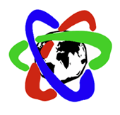 This is the main element of IYNC Logo